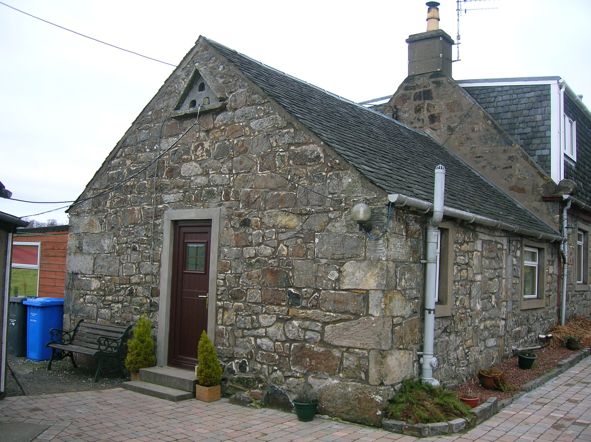 Balgray Farm and dovecot, Barrmill, North Ayrshire, Scotland.